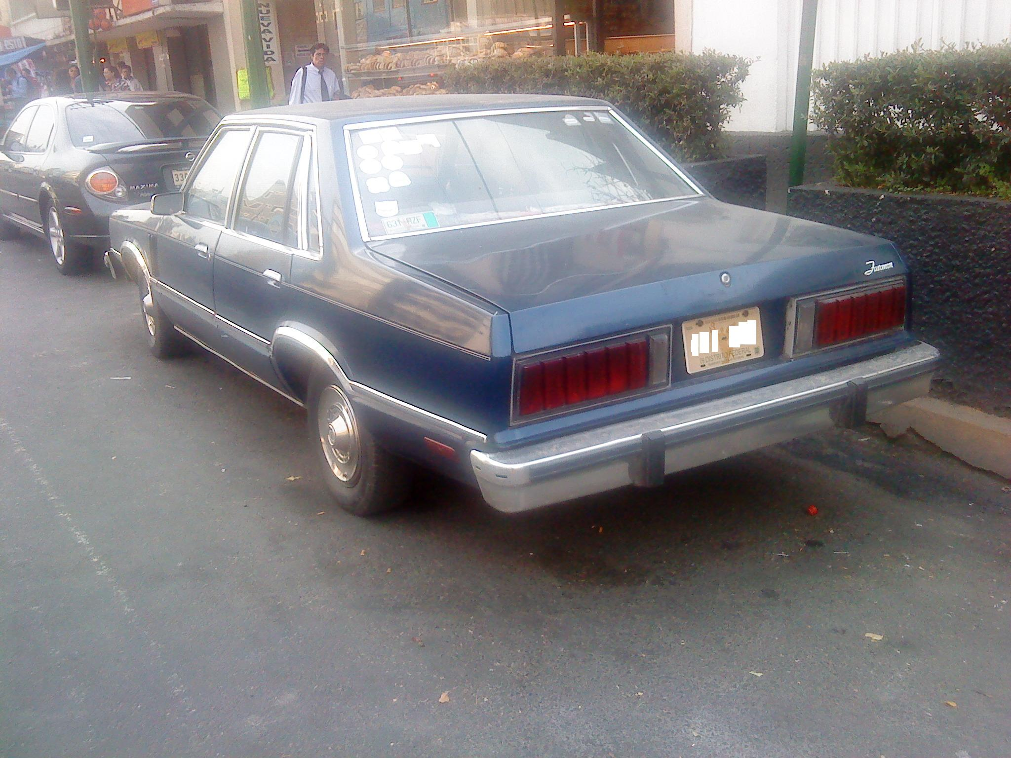 A 1982 4 door Ford Fairmont in Mexico City